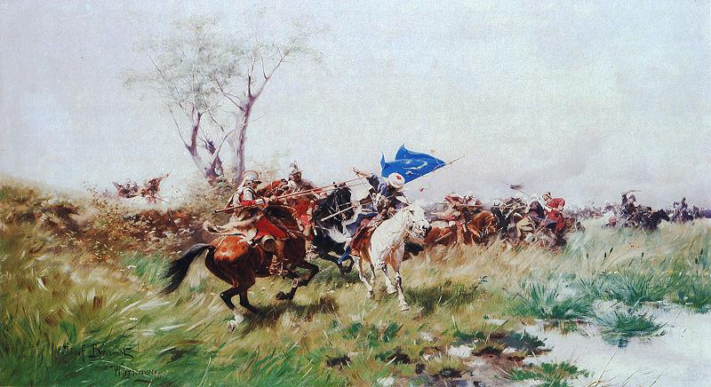 On the left, cavalry of the Polish-Lithuanian Commonwealth (hussars or pancernys), on the right, probably of the Ottoman Empire. Setting is likely to be 17th century.